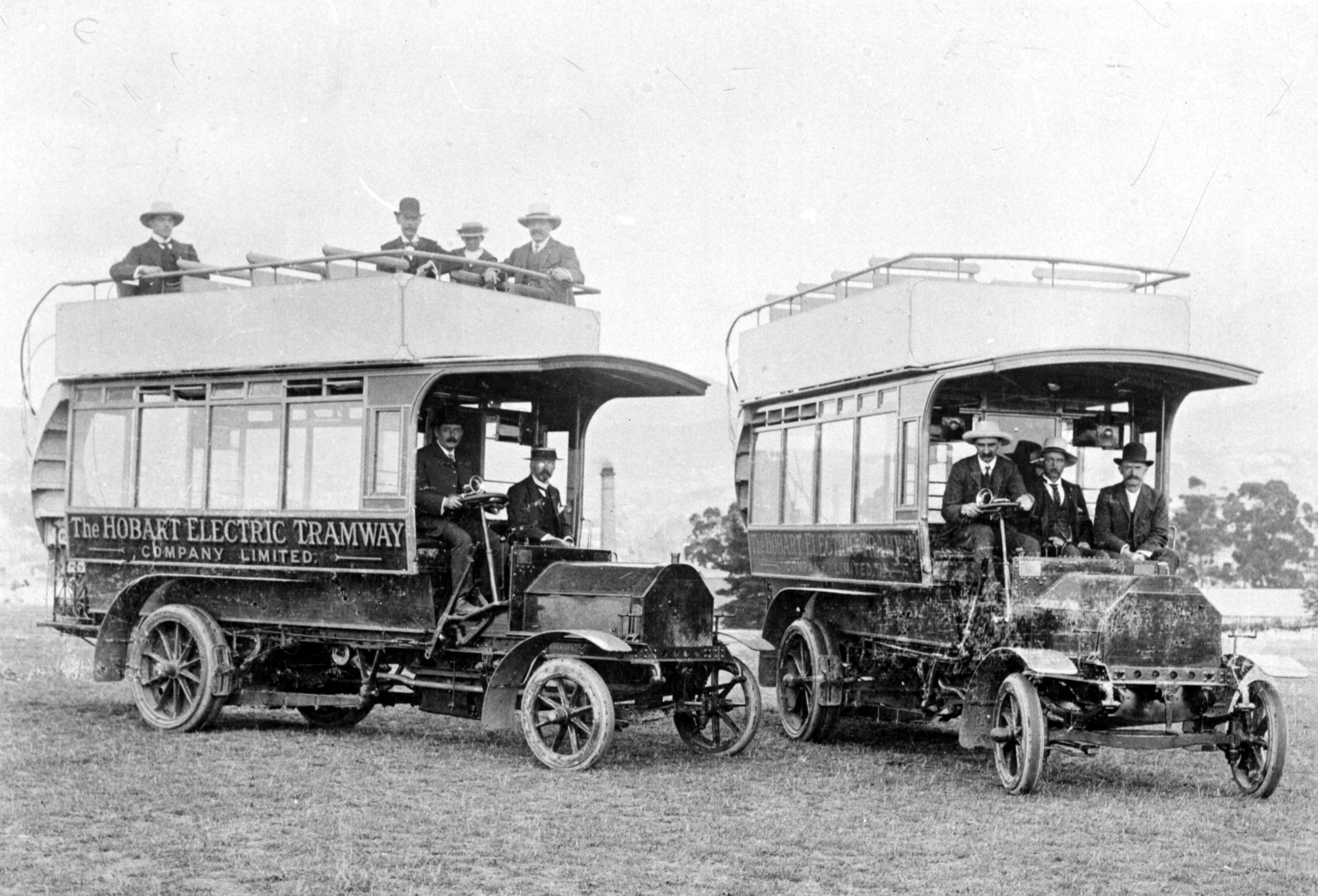 Newly arrived Hobart Electric Tramway Company Daimler buses on the Domain. Ted Lidster collection